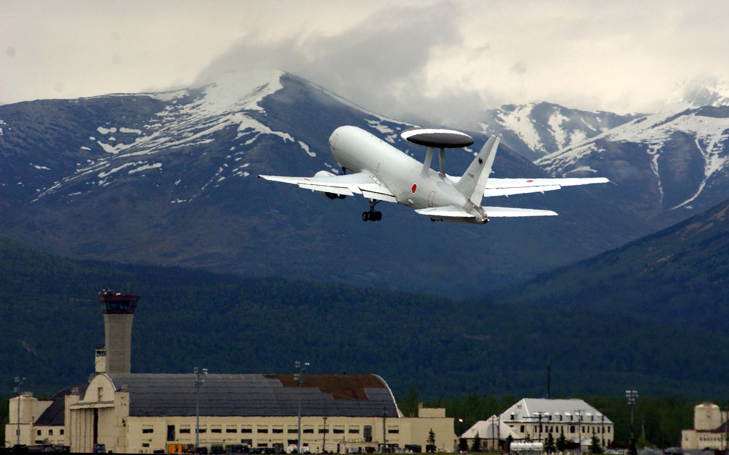 A Japanese Air Self Defense Force E-767 takes off for a training mission. The JASDF's version of our AWACS, along with C-130s and F-15J is here to participate in Coopertive Cope Thunder. The June 5-20 exercise represents the first time the Japanese Air Self Defense Force has deployed fighter aircraft to any exercise outside of Japan. More than 1,675 people will participate at Elmendorf and Eielson Air Force Bases, including approximately 980 U.S. service members and 695 service members from Thailand, Singapore, Republic of Korea, India and the North Atlantic Treaty Organization. About 275 people from the JASDF will participate. (U.S. Air Force Photo by Tech. Sgt. Keith Brown) (Released)